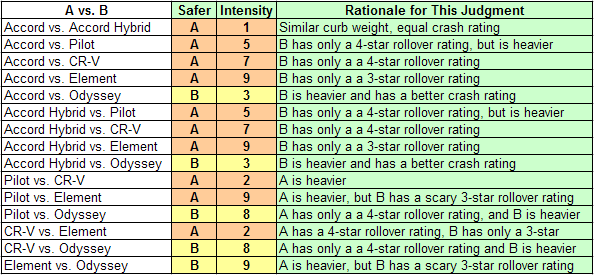 Part of a series of images to illustrate an article on the Analytic Hierarchy Process